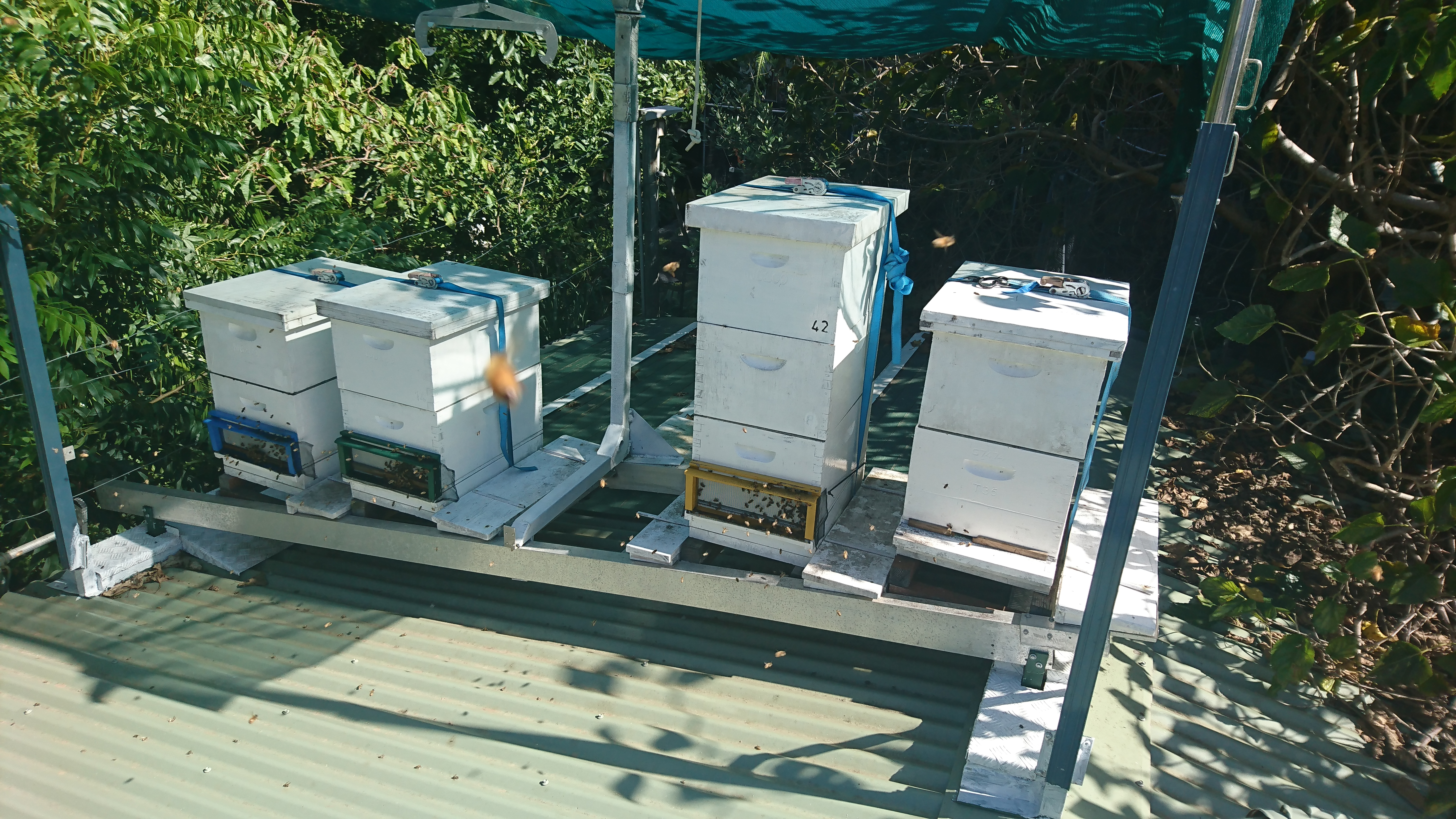 Bee hives on urban garage roof Avalon Beach NSW